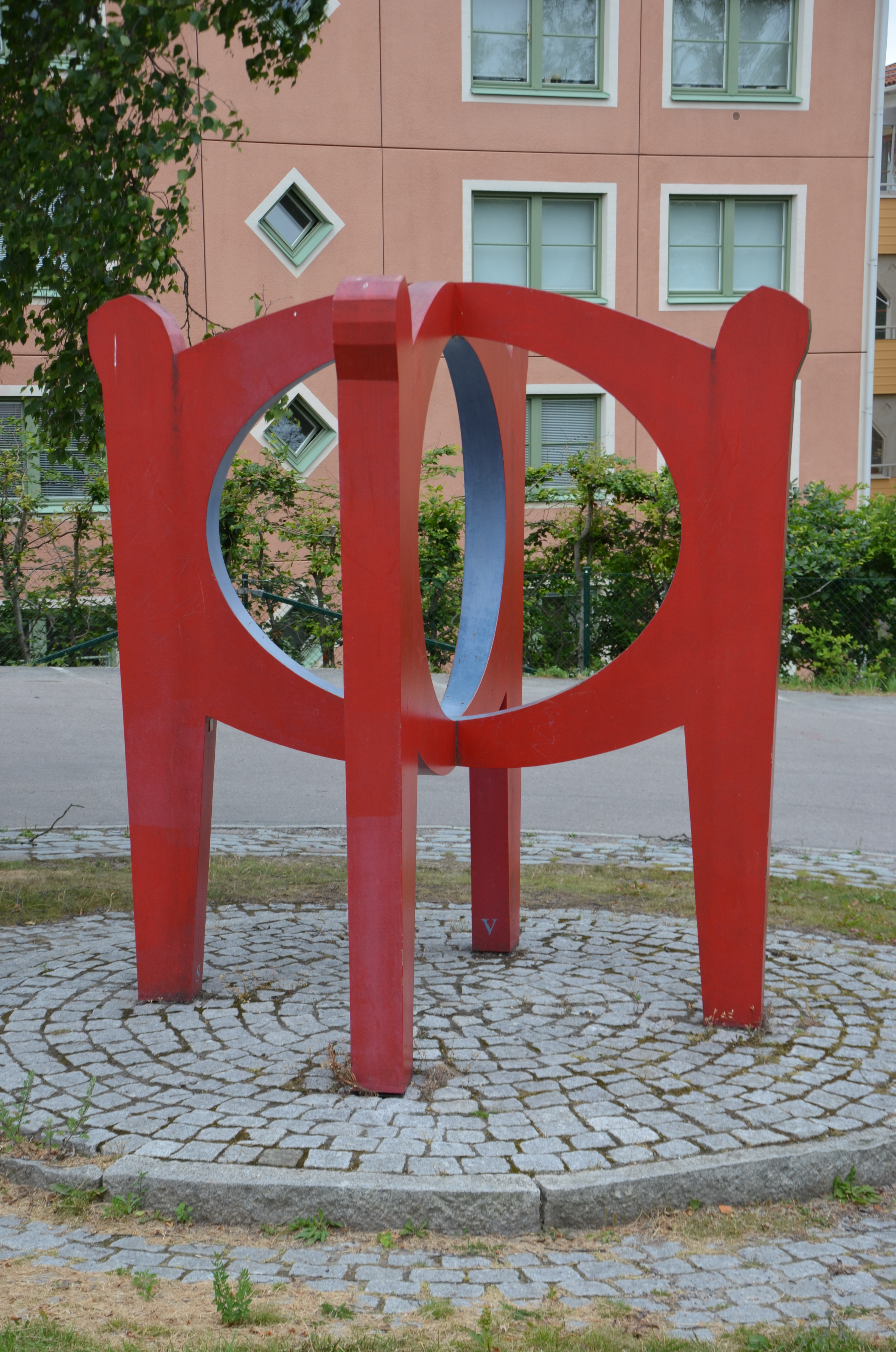 Michael Fares Tillsammans utanför Kungsklippeskolan i Stuvsta, Huddinge